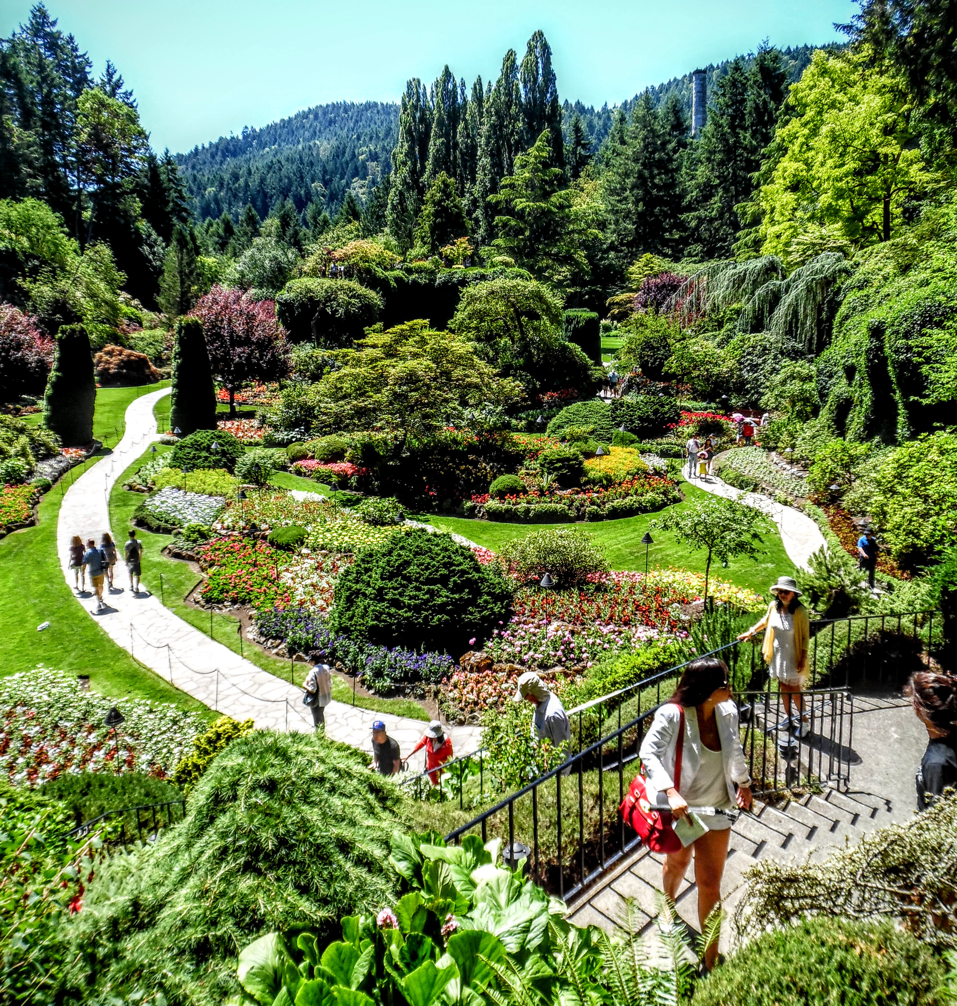 Butchart Gardens - Victoria, British Columbia